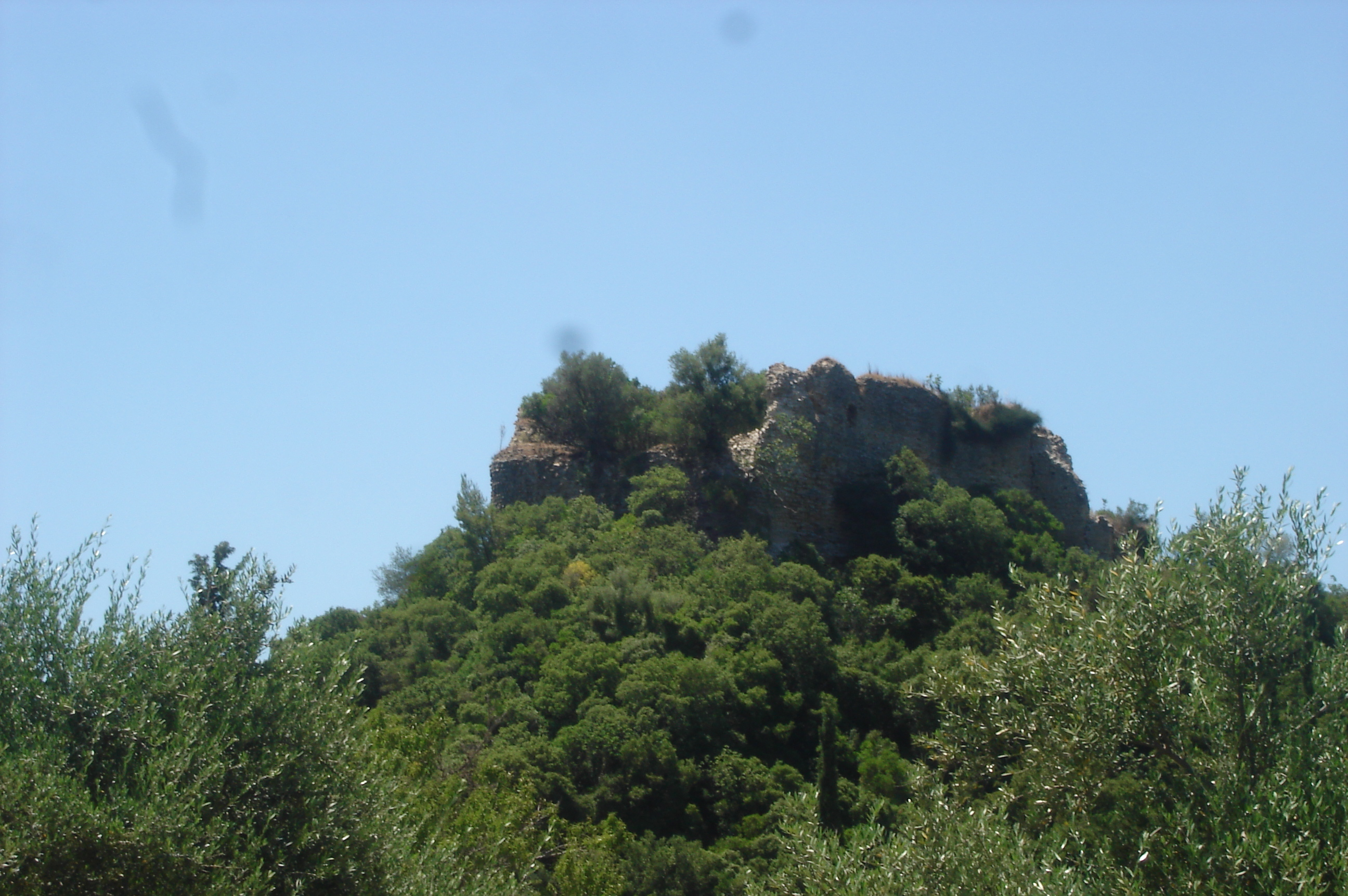 Castle Arlas or Egiptokastro or giftokastro, achaea Greece